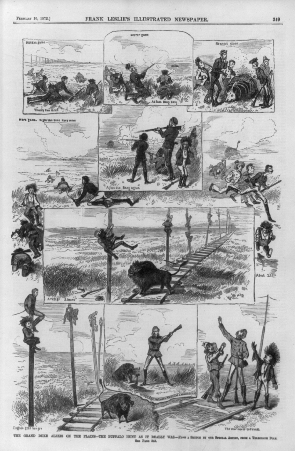 "The Grand Duke Alexis on the plains - the buffalo hunt as it really was". Newspaper caricature of Grand Duke Alexei Alexandrovich's American buffalo hunt.